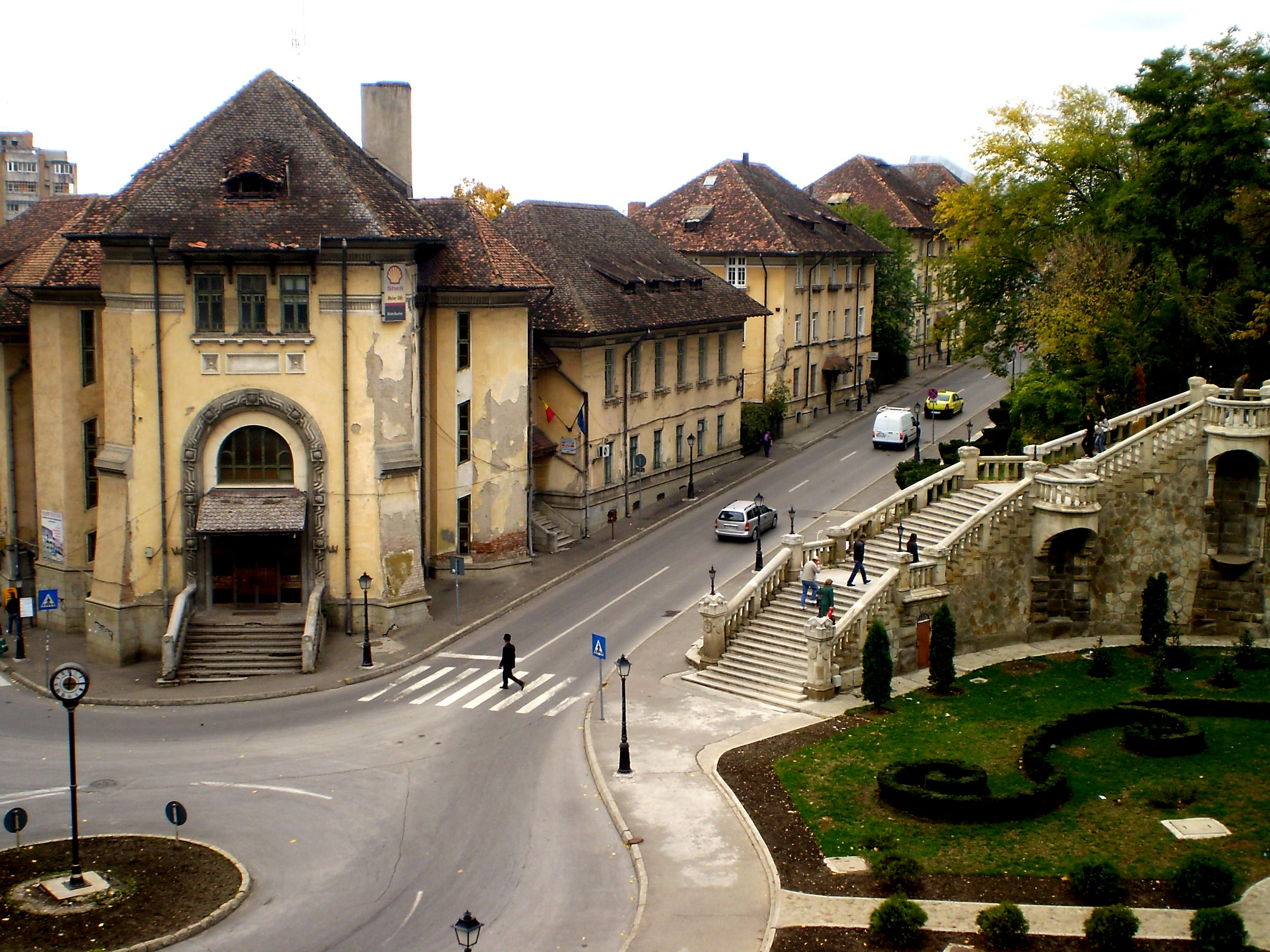 Railway Pavilions , Yellow Ravine , Iaşi, RomaniaRomână: Pavilioanele CFR , Râpa Galbenă , Iaşi, România